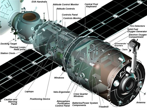 A diagram showing the on-orbit configuration of the Zvezda Service Module of the International Space Station. 138-33-1 GRFX 11/29/00 8:31 AM